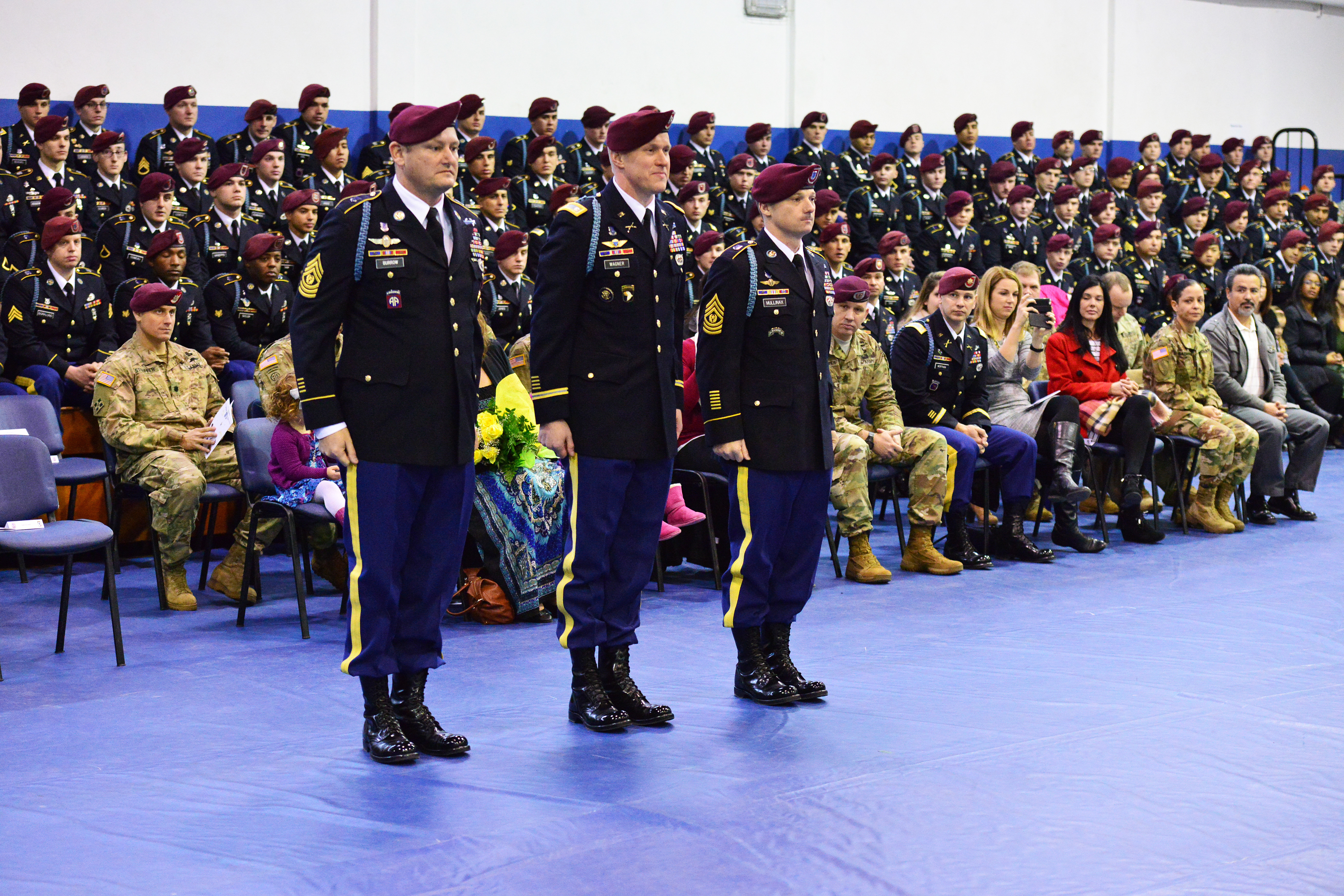 (From Left) Outgoing Command Sgt. Maj. Charles L. Burrow, of 1st Battalion, 503rd Infantry Regiment, 173rd Airborne Brigade, Lt. Col. Michael P. Wagner, commander of 1st Battalion, 503rd Infantry Regiment, 173rd Airborne Brigade and Incoming Command Sgt. Maj. Christopher L. Mullinax, of 1st Battalion, 503rd Infantry Regiment, 173rd Airborne Brigade, during the change of responsibility ceremony at Caserma Ederle in Vicenza, Italy, Jan. 12, 2017. The 173rd Airborne Brigade based in Vicenza, Italy, is the Army Contingency Response Force in Europe, and is capable of projecting forces to conduct the full of range of military operations across the United State European, Central and Africa Commands areas of responsibility. (U.S. Army photo by Visual Information Specialist Paolo Bovo/released) Unit: Training Support Activity Europe DVIDS Tags: Soldier; Italy; 173rd Airborne Brigade; commander; 1st Battalion; Training; 503rd Infantry Regiment; Command Sgt. Maj.; Change of Responsibility Ceremony; U.S Army Soldier; TSAE; Caserma Ederle; Paolo Bovo; U.S.ARMY Europa; Training support Center Vicenza; Training Support Activity Europa; Visual Specialist; Lt. Col. Michael P. Wagner; Command Sgt. Maj. Christopher L. Mullinax; Command Sgt. Maj. Charles L. Burrow